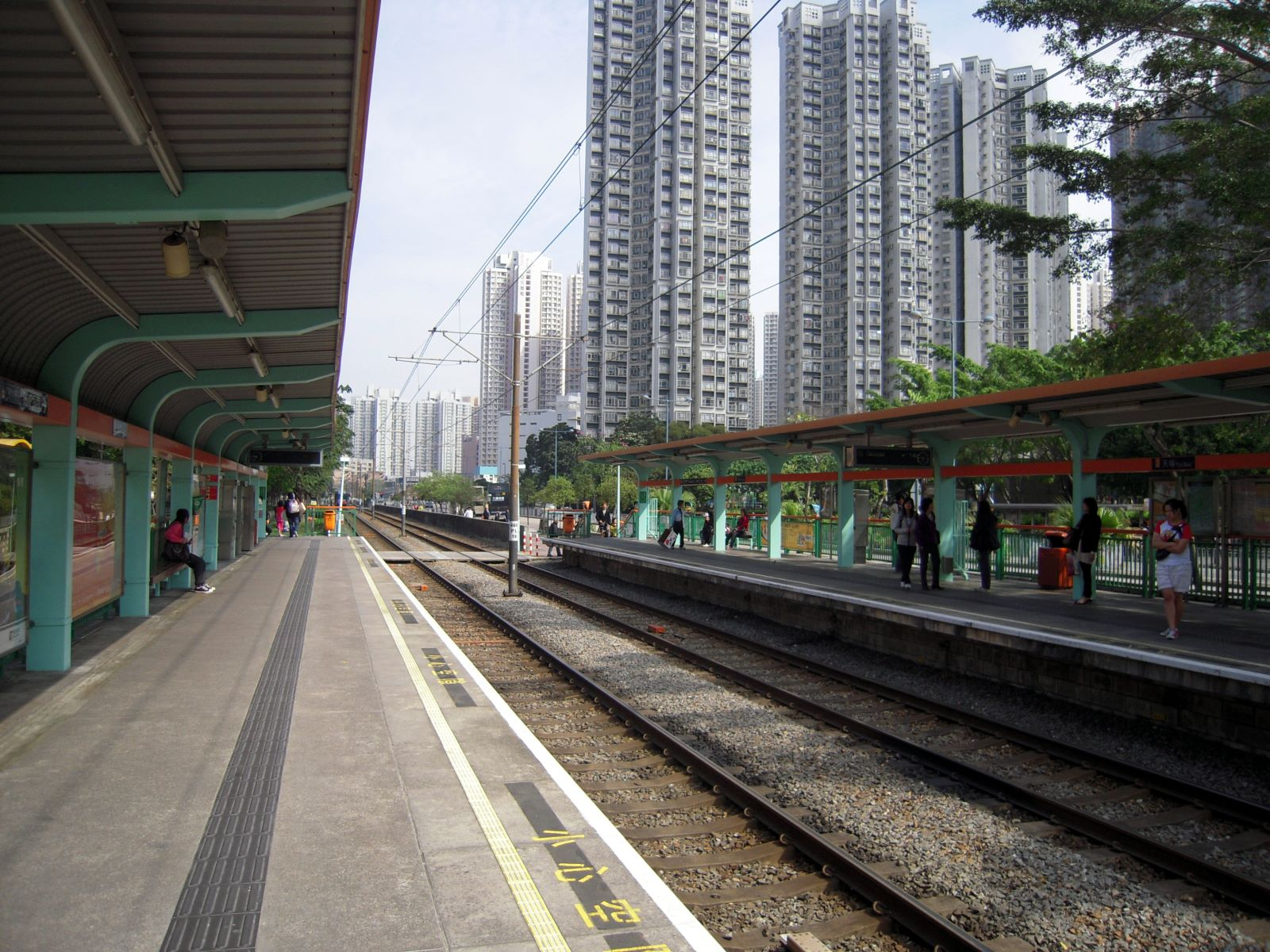 MTR Light Rail Tin Shui Stop, Hong Kong.